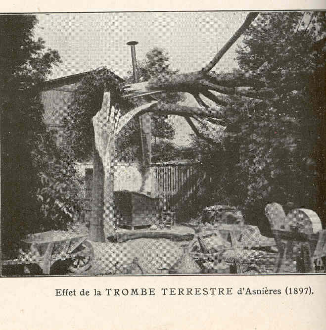 Subject: Tornadoes--Asnieres (France) Geographic Subject: France--Asnieres Tag: Coasts